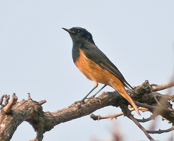 Black Redstart (Phoenicurus ochruros) in Bhopal, Madhya Pradesh, India.